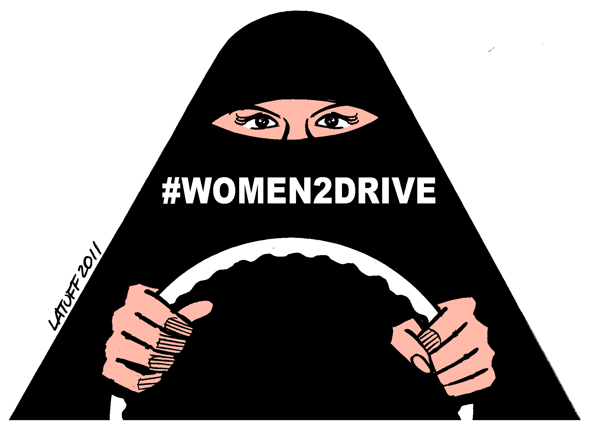 Cartoon for Saudi Arabia's #women2drive Movement